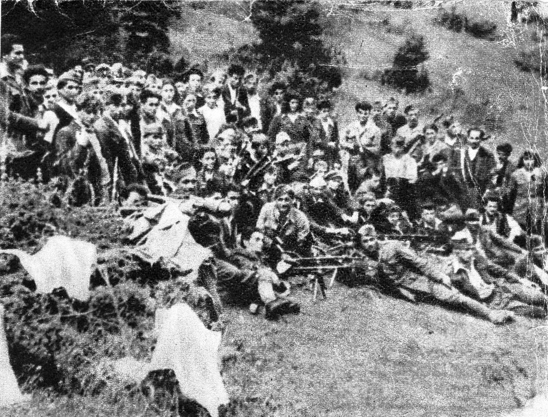 Armies in Greece, Second World War This media file is produced by Wikipedian in Residence in Category:Wikipedian in Residence at DARM in 2016.